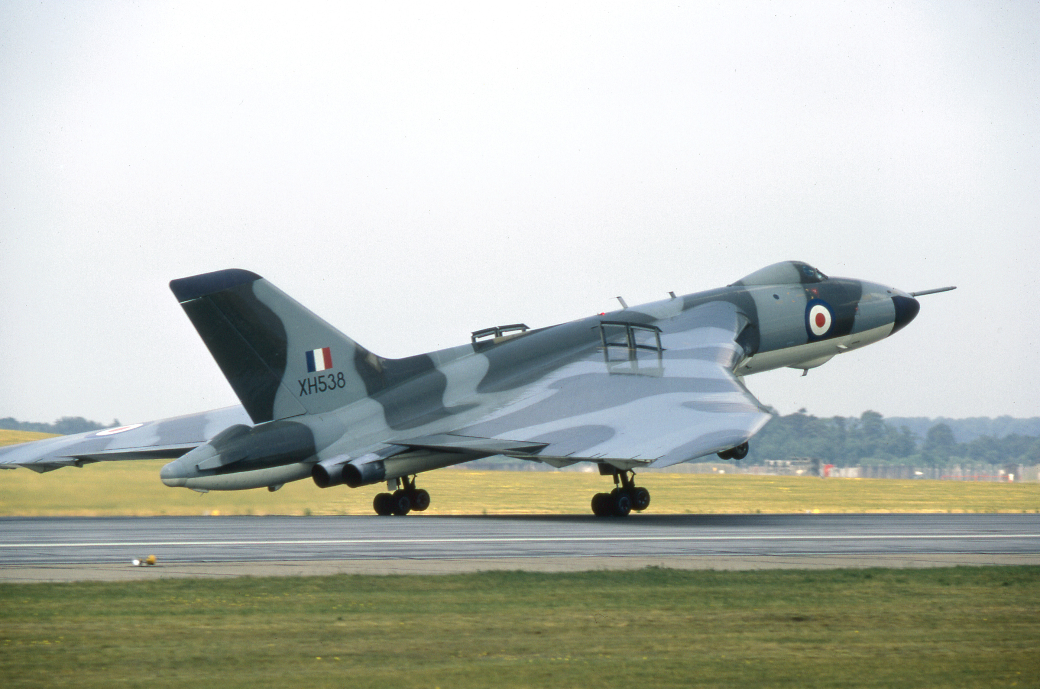 Touching down.